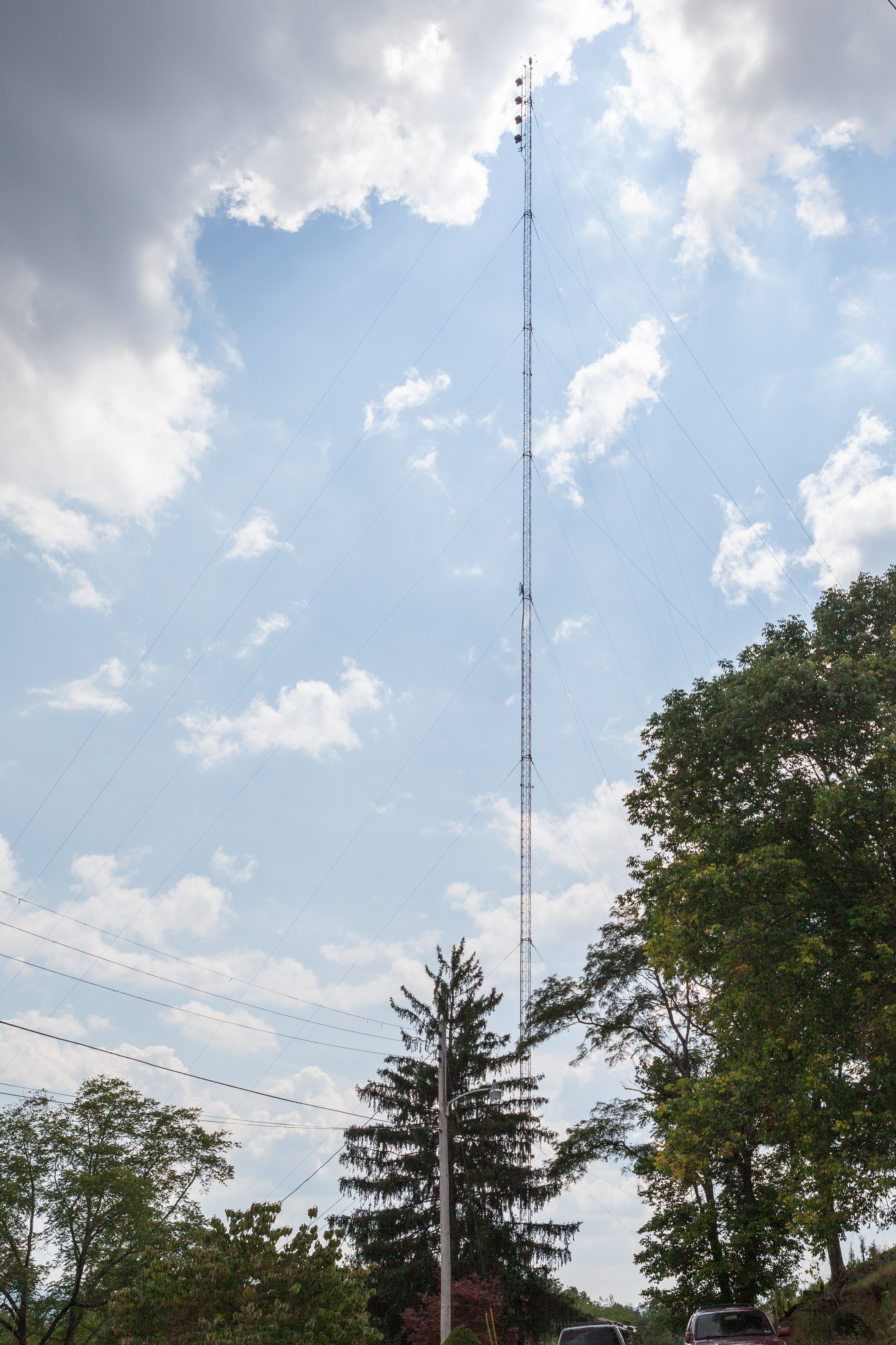 Antenna mast for WCLG and WCLG-FM, on west Jackson Street in Westover, West Virginia.